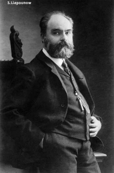 Sergei Mikhailovich Lyapunov (1859-1924), Russian omposer.